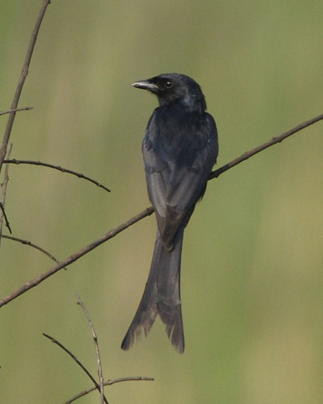 Black Drongo Dicrurus macrocercus ssp Dicrurus macrocercus albirictus Location: Kazaringa, Assam, India April 15, 2008 690V4776